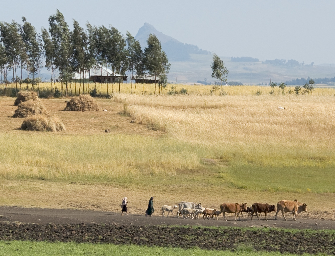 On The Road To Simien Mountains National Park, Ethiopia